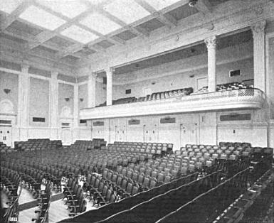 Interior, Chickering Hall, Boston (built 1901)